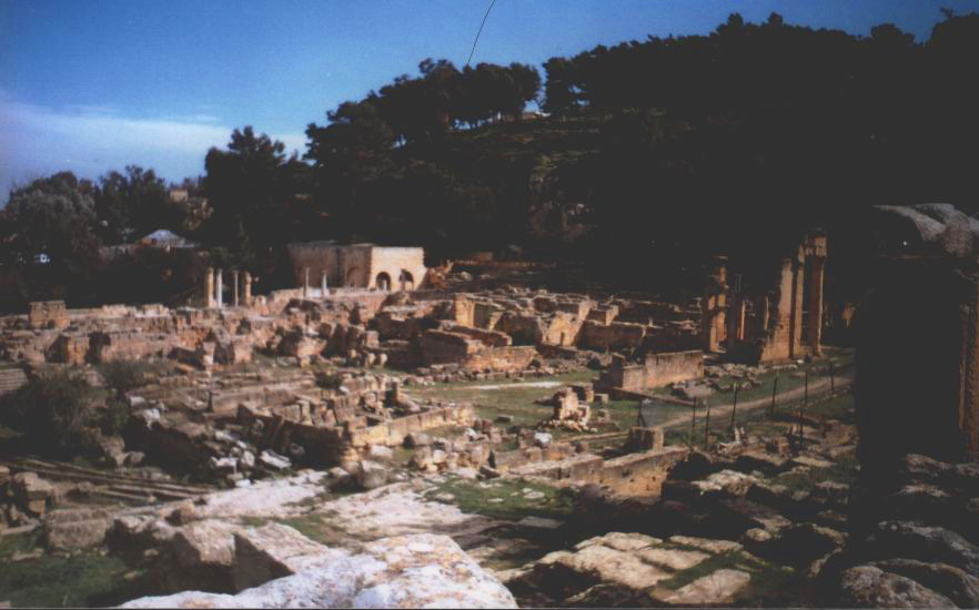 Ruins of Cyrene, Libya